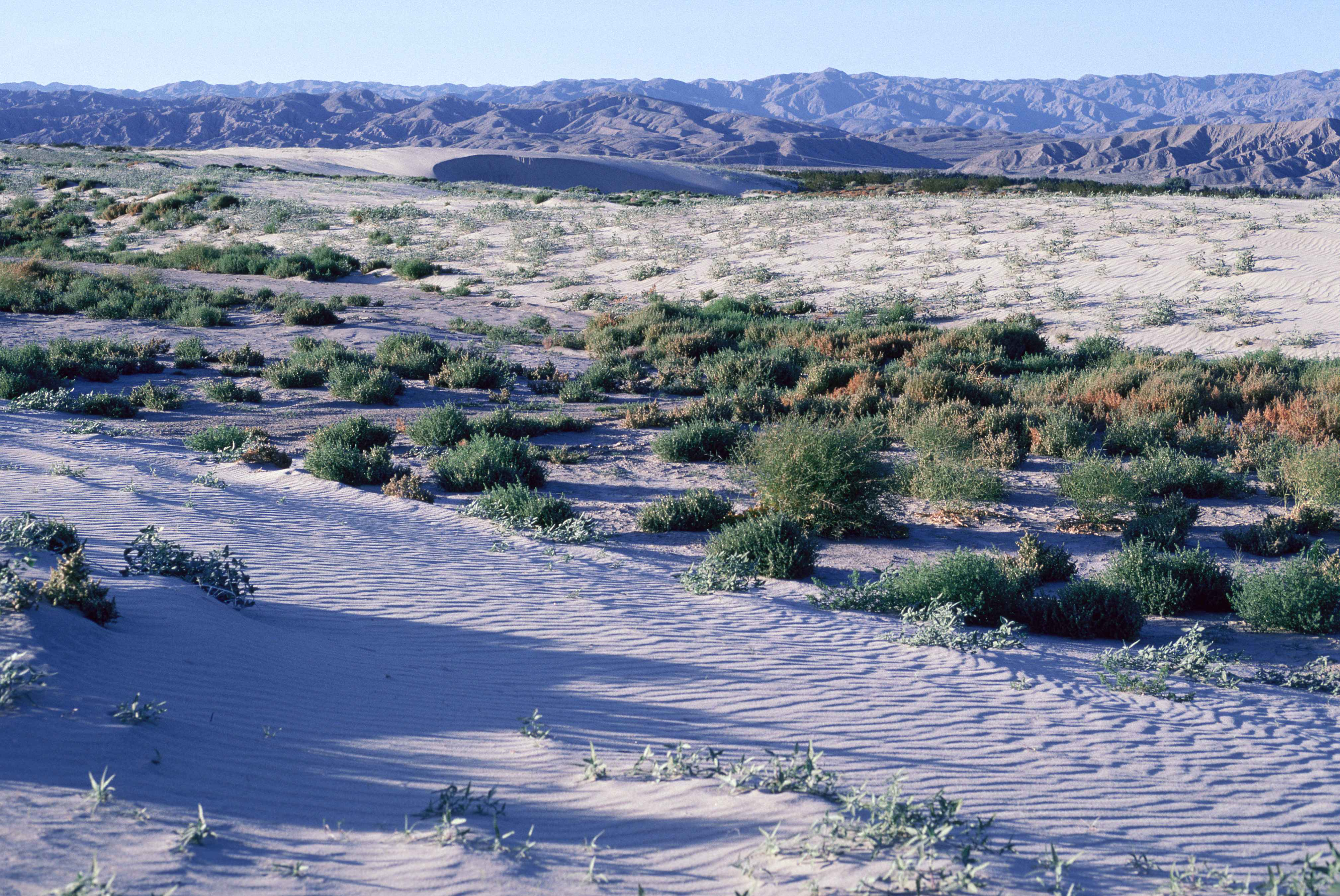 Image title: Coachella valley desert Image from Public domain images website